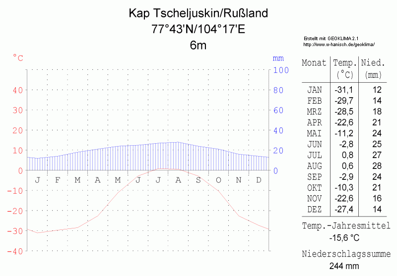 climate chart in the format by Walther and Lieth, metric, °Celsisus and millimeters, made with Geoklima 2.1